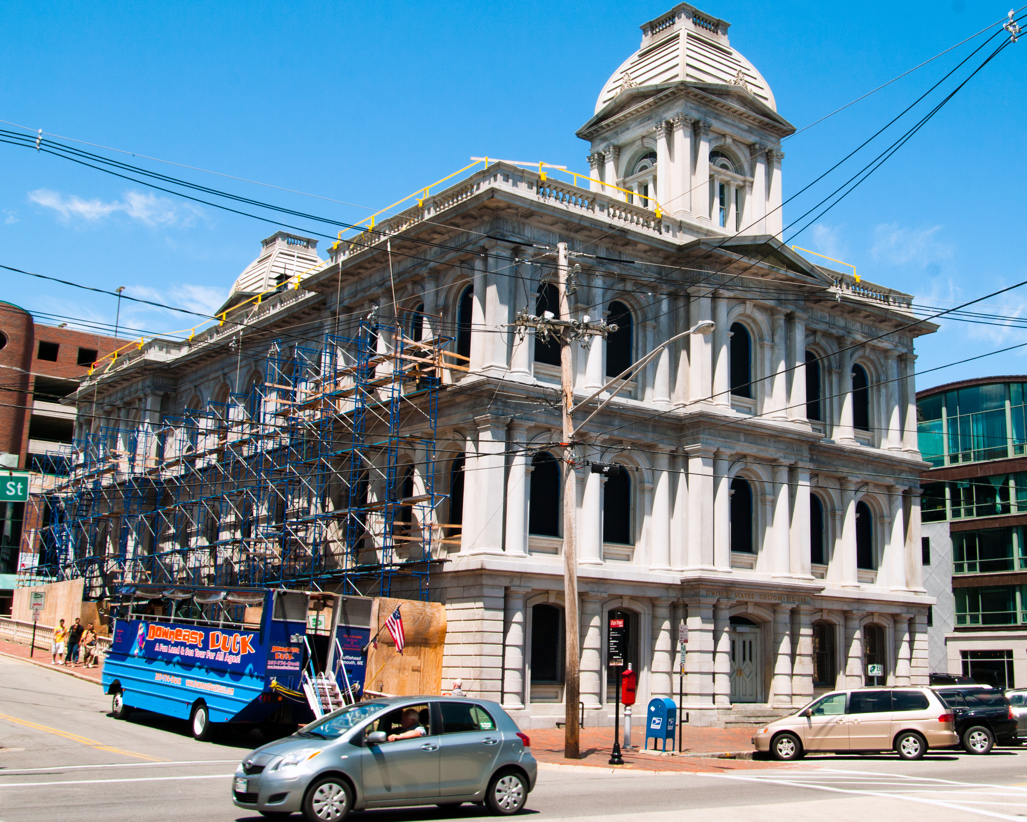 Old building and ducks tours on Commercial street in the Old Port area of Portland, Maine.